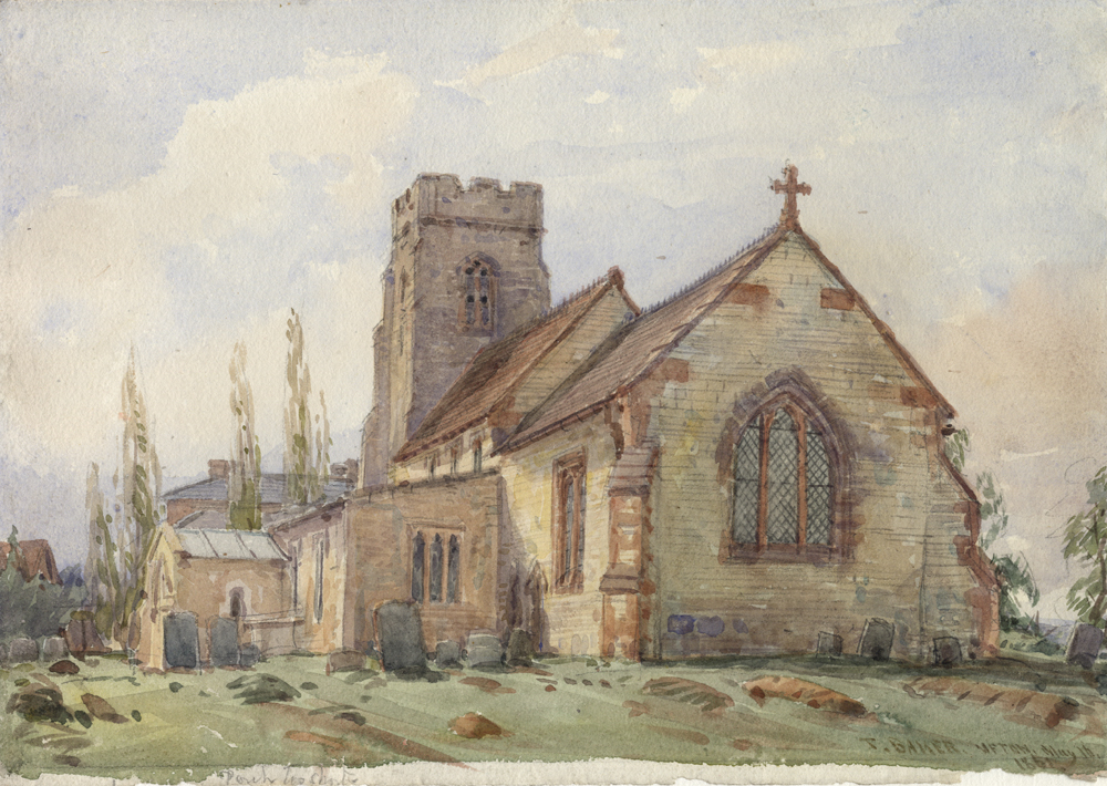 Church seen from SE. Low square tower, projecting south porch. A few poplars rising behind, rather bare graveyard in foreground. Dull greens and browns, pallid sky.